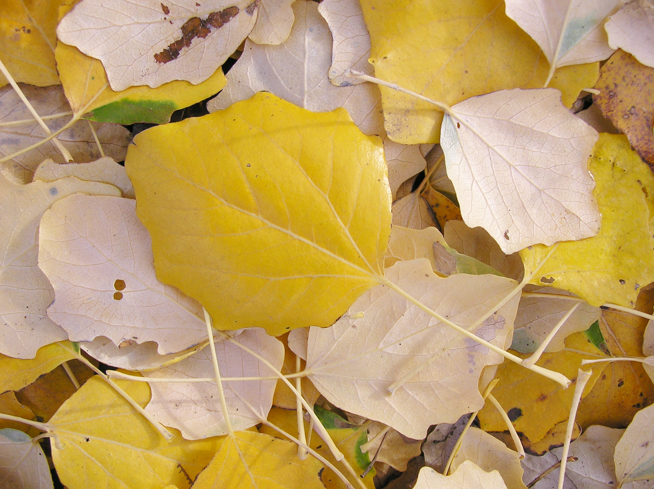 Populus × canescens (Aiton) Sm.; fall foliage. Habitat: bottomland deciduous forest near Volgograd Reservoir (Volga). Engelssky District, Saratov oblast, Russia.